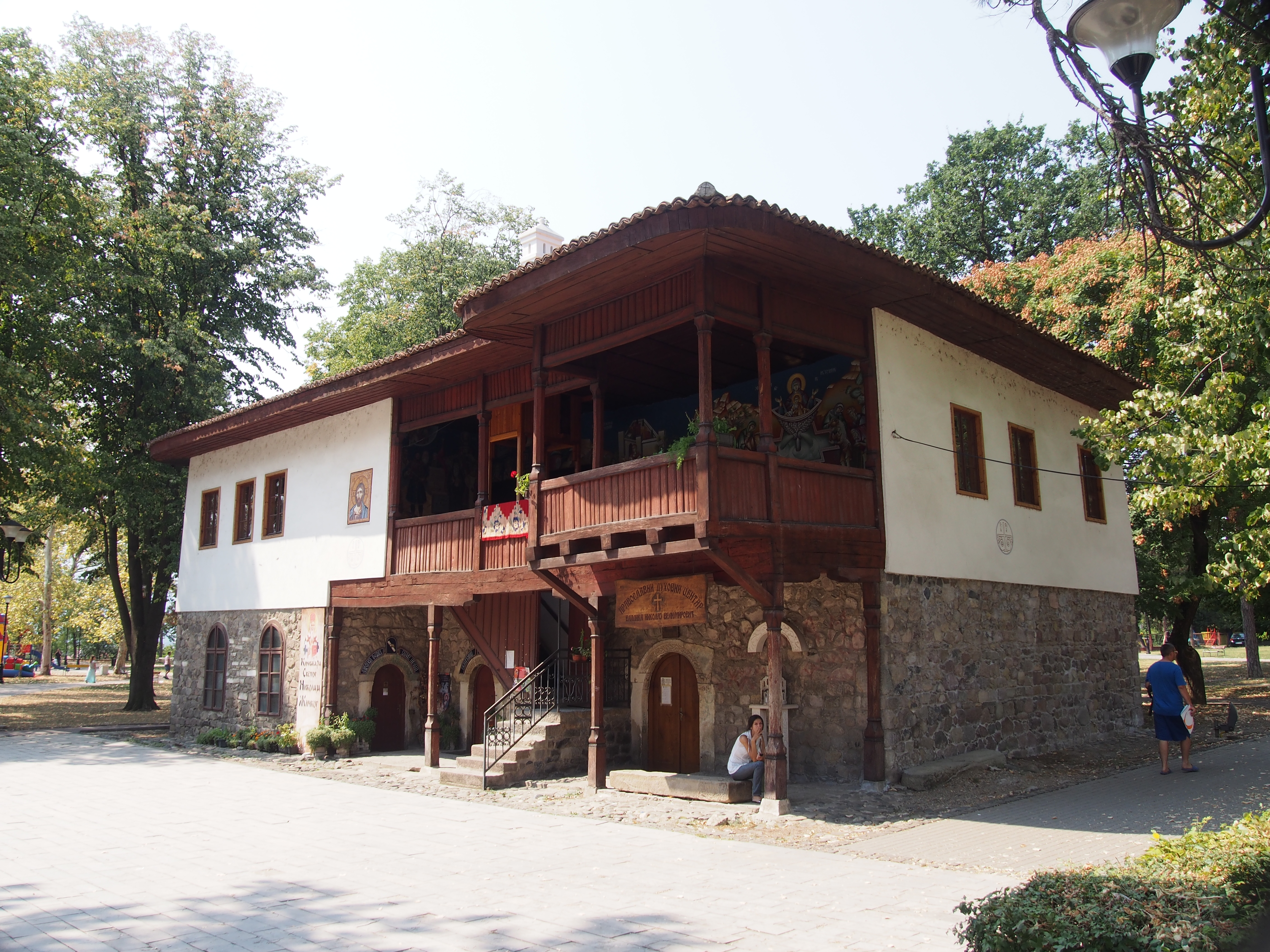 Kraljevo, Lord Vasin Inn (House of Vladike Nikolaya)